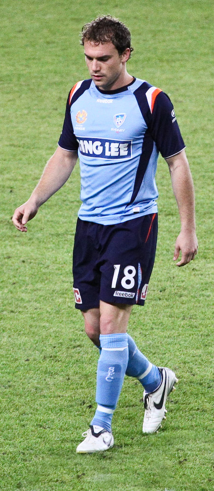 Adam Casey playing for Sydney FC against the Central Coast Mariners in Round 10 of the 08/09 A-League.